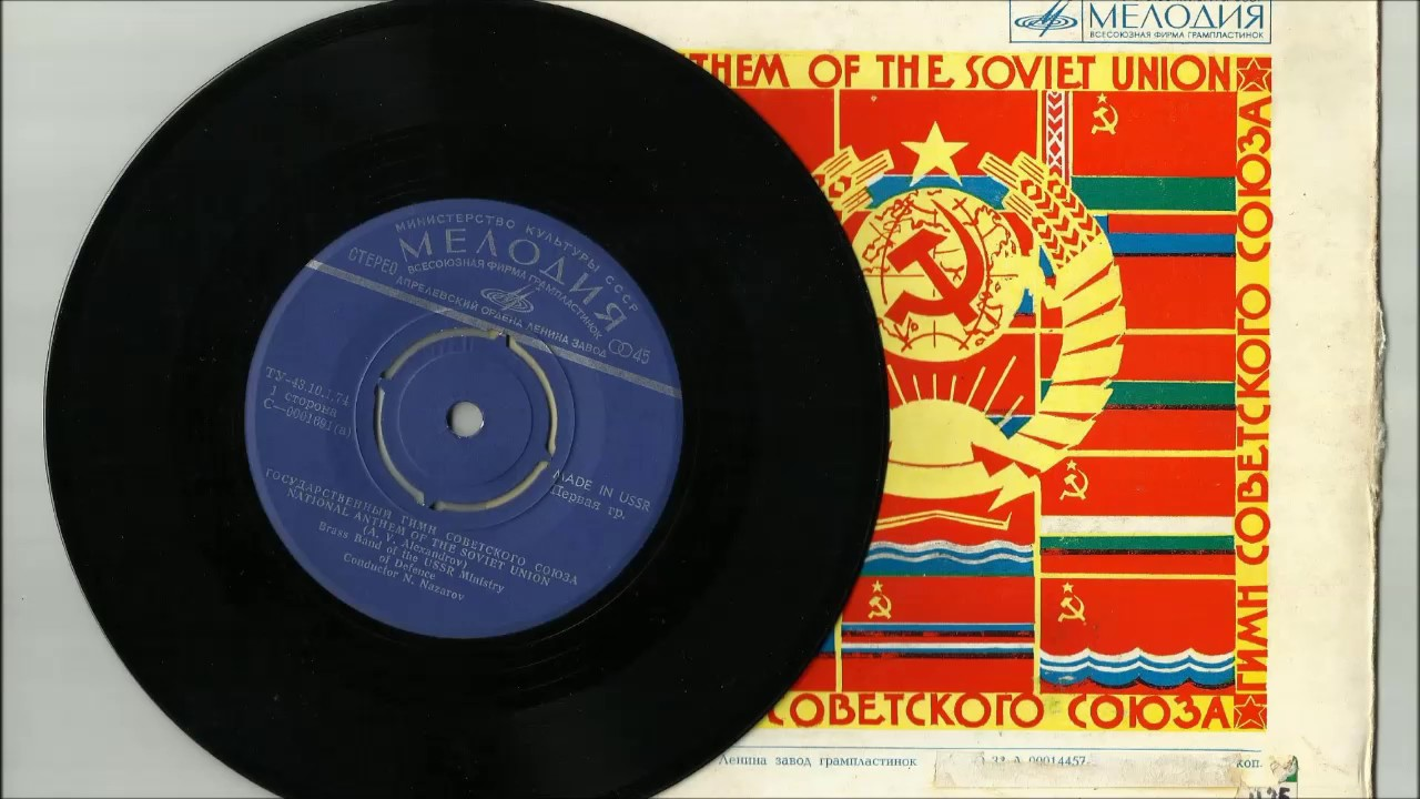 LP-1691a-labels-National Anthems of the Soviet Union